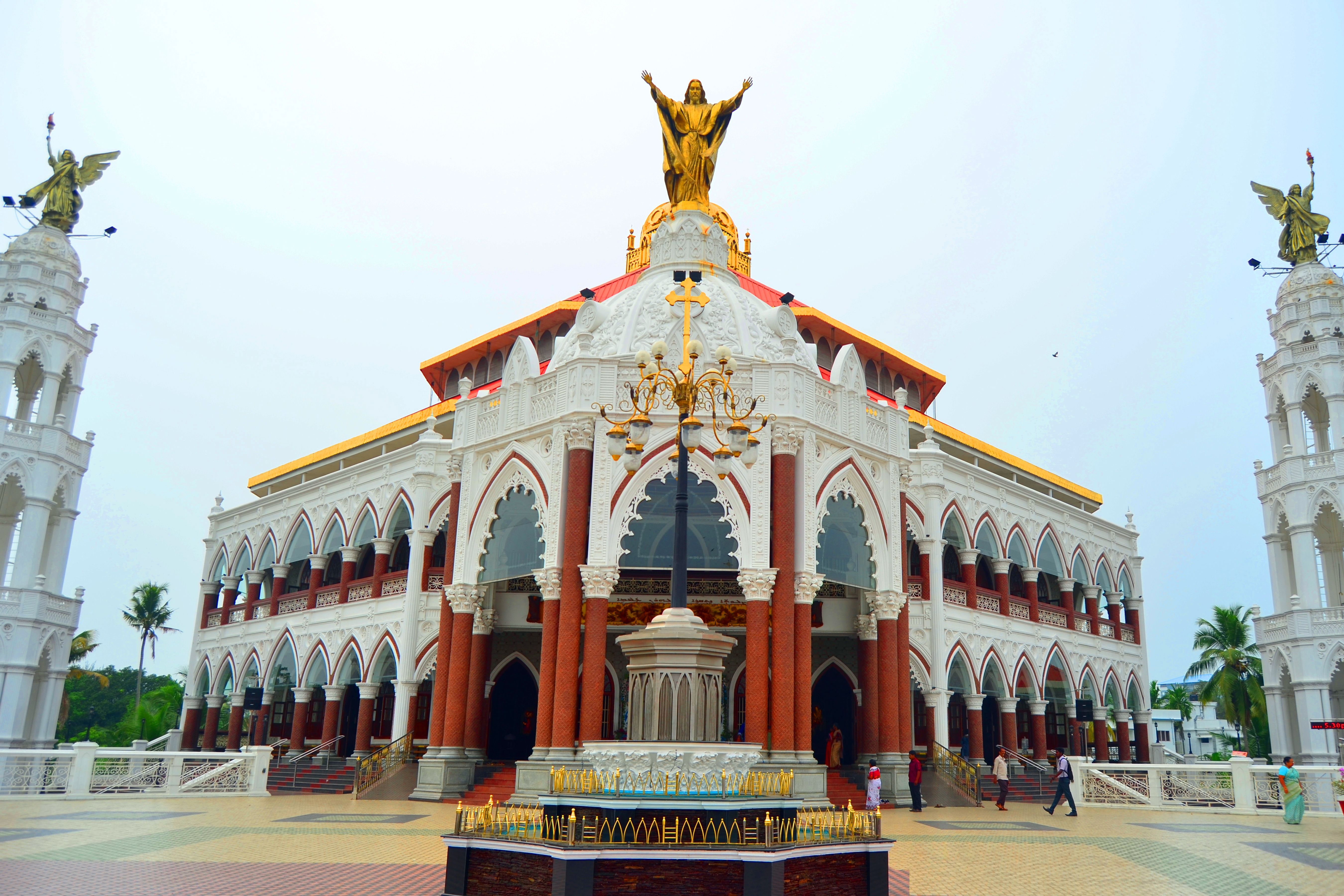 St, GEORGE CHURCH, FRONT VIEW